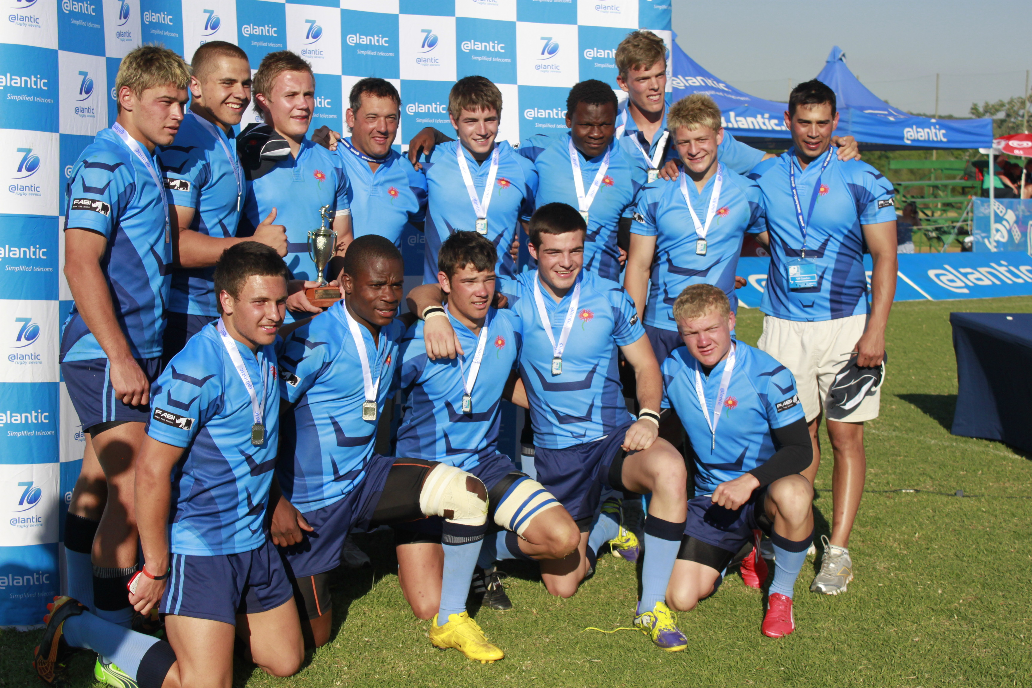 Photo 2011 u18 Provincial Champions